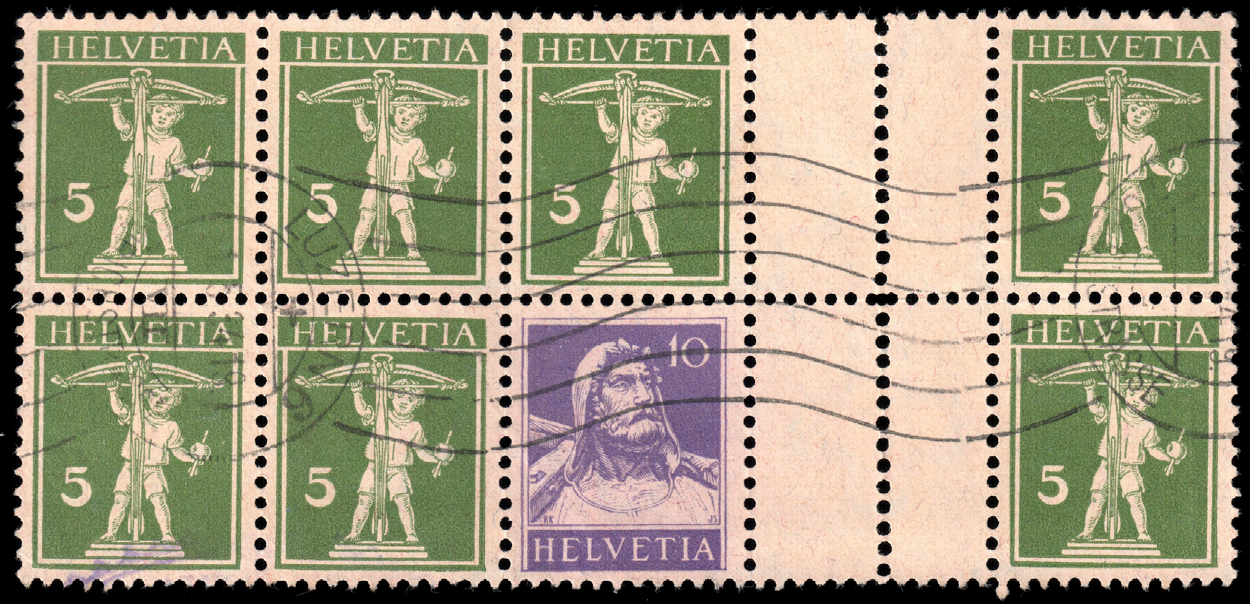 Switzerland 1933 very scarce gutter block - ZsS40z and S42z used. Grilled gum, Mi. WZ28zC (5:5) and WZ29zC (10:5).